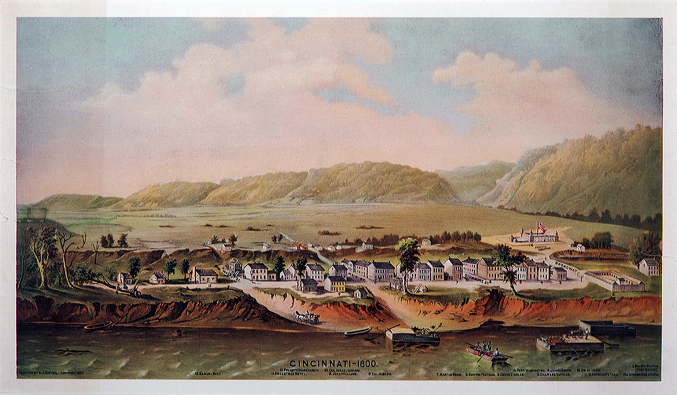 Cincinnati in the year 1800, population 750, when only about 30 structures had been built. Many of these structures and some streets are identified by number in the print.